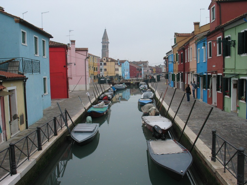 A photo illustrating brightly painted houses throughout Burano on either side of the canal, with the campanile of the Church of San Martino in the distance.